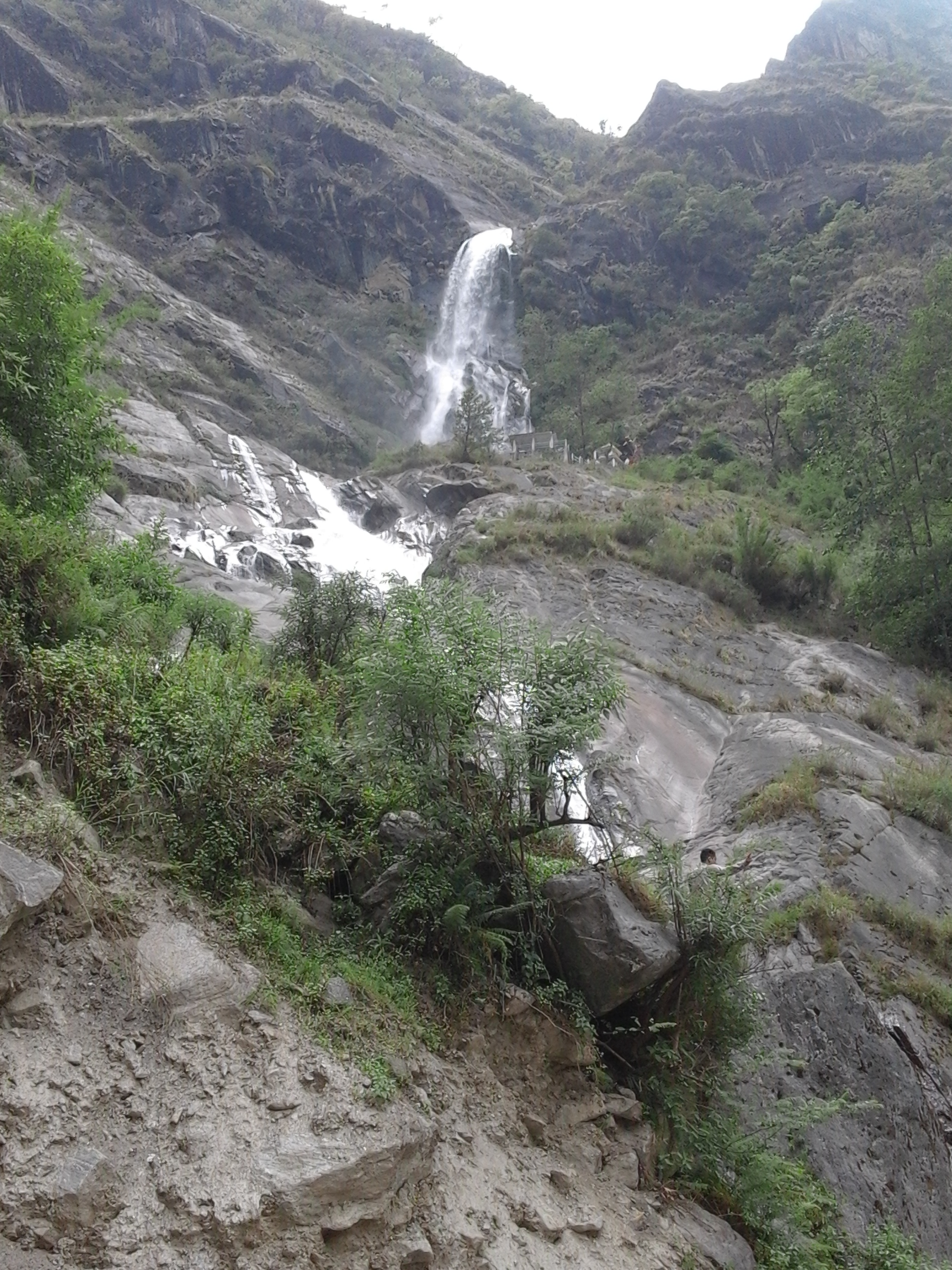 The scintillating beauty of waterfall